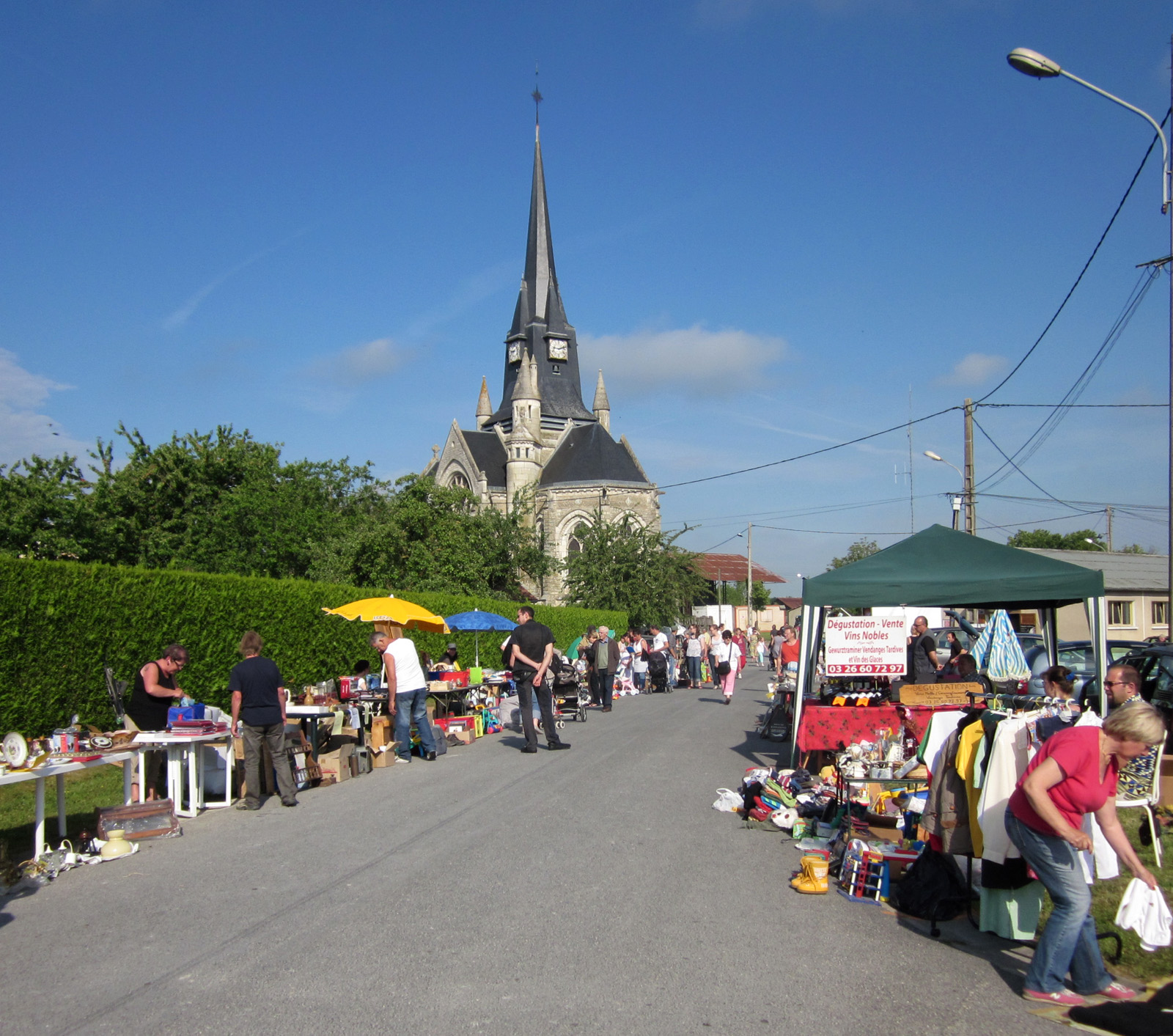 Brocante, Cernay.